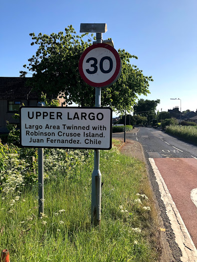 Largo Area twinned with Robinson Crusoe Island in Chile